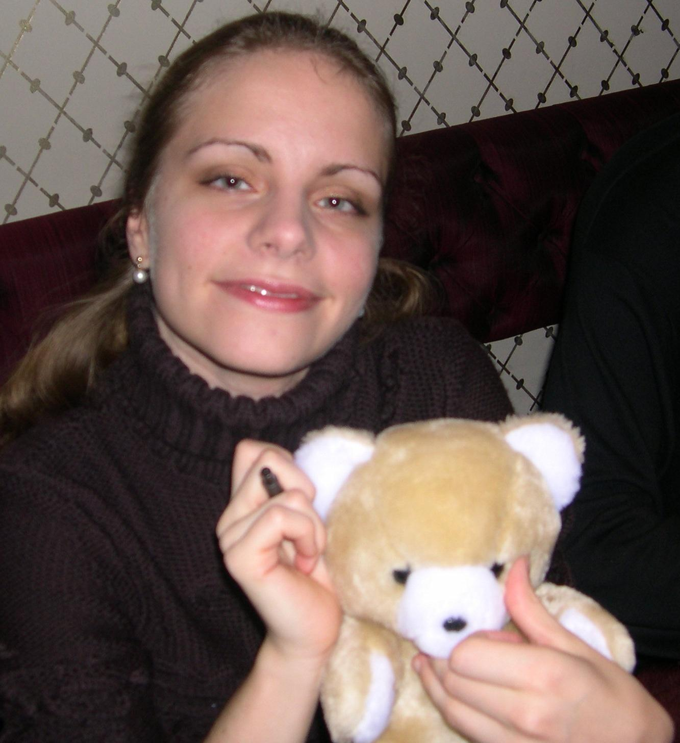 Julia Fischer signing autographs at the Concertgebouw, Amsterdam